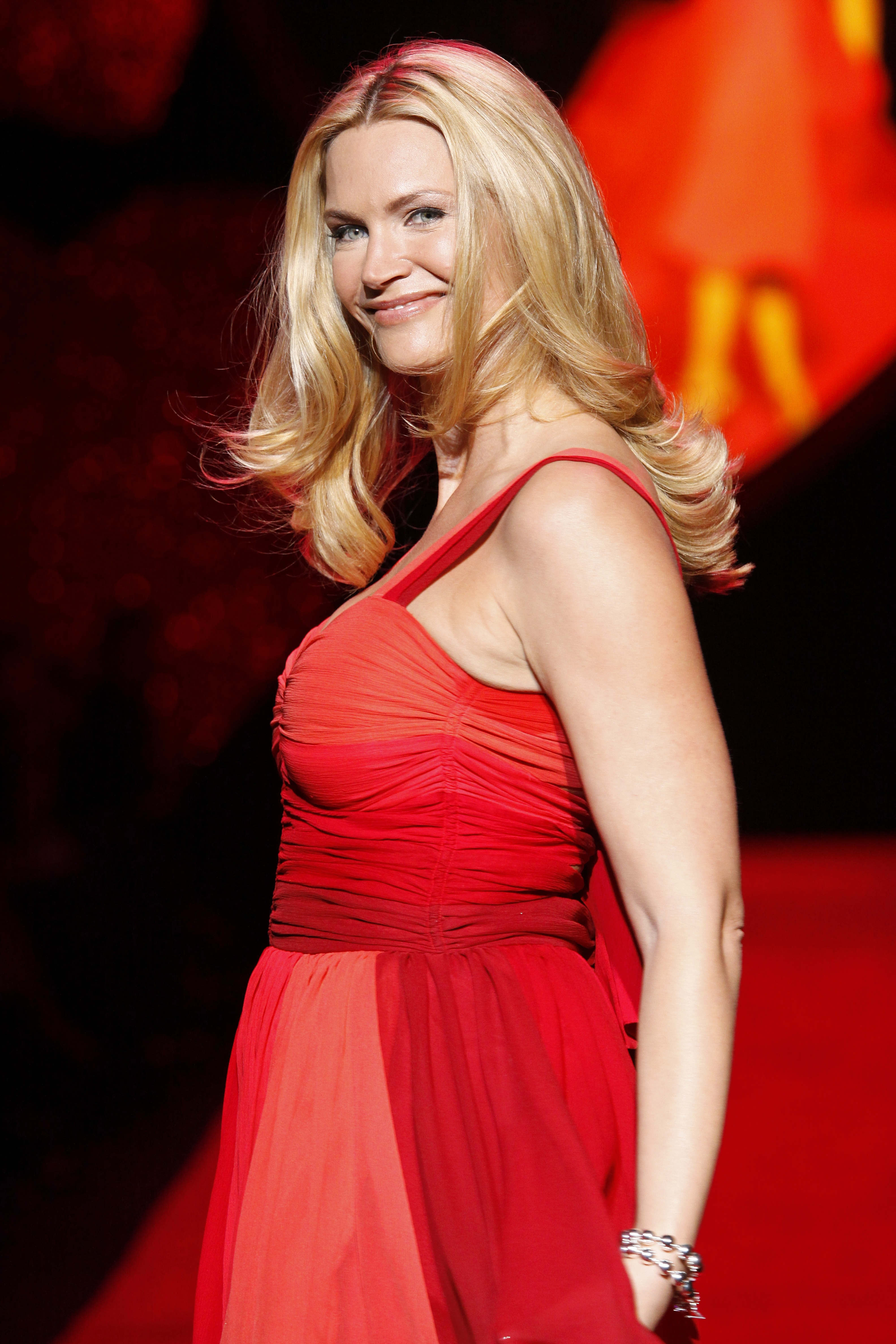 Backstage at The Heart Truth's Red Dress Collection Fashion Show during New York Fashion Week. February 13, 2009 at Bryant Park.